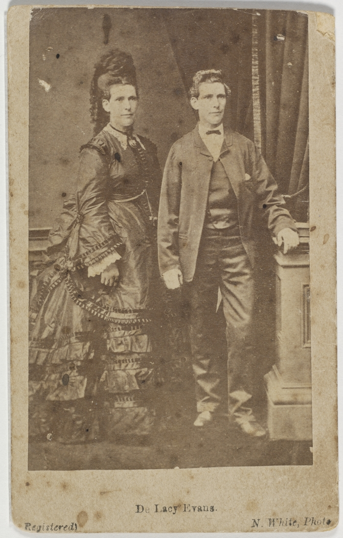 "The woman of Bendigo always dressed as man" in pen on reverse General Note The image is probably a fake cut-and-paste portrait produced after de lacy Evans was discovered to be a woman in September 1879, after 22 years of dressing, living and working as a man. Registered by photographer, N. White, of Sandhurst, Bendigo, Victoria, the carte de visite would have been sold as a curiosity. Format: Photograph Find more detailed information about this photograph: .au/item/itemDetailPaged.aspx?itemID=152639 Search for more great images in the State Library's collections: .au/search/SimpleSearch.aspx From the collection of the State Library of New South Wales